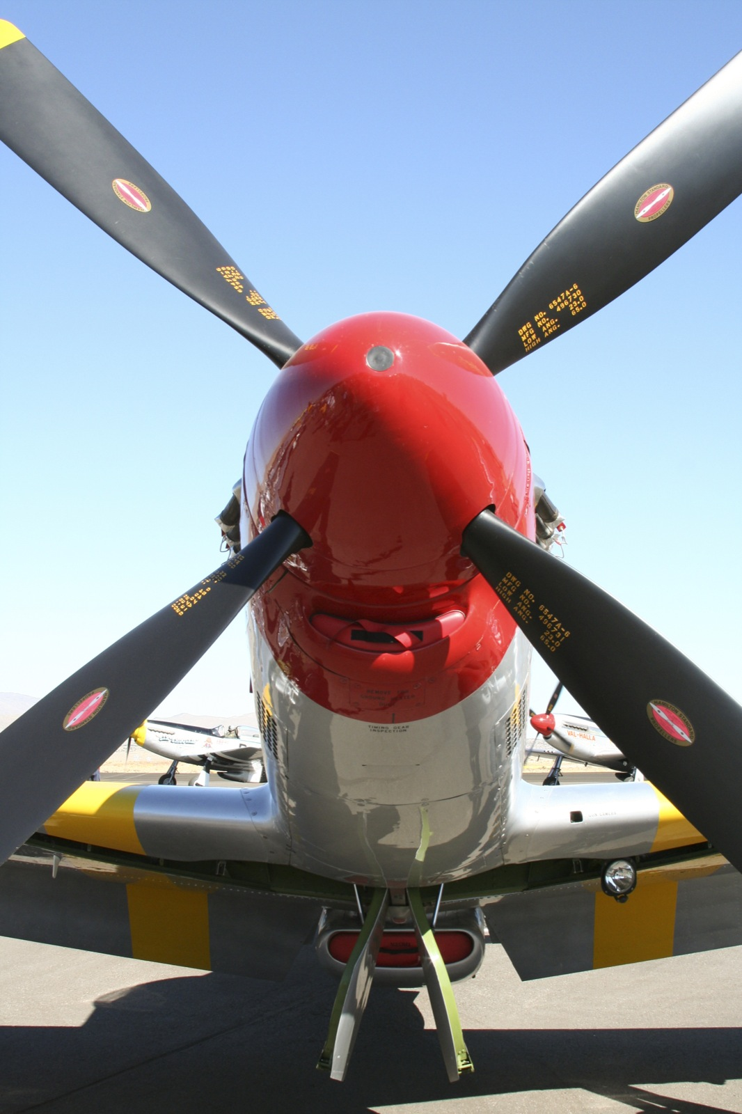 P-51 Mustang up close at the Reno Air Show & Races